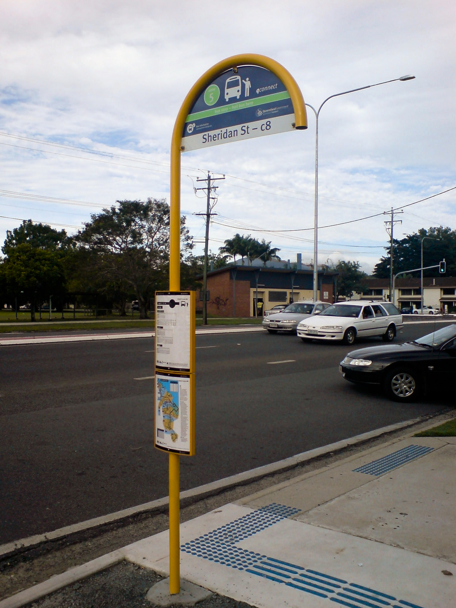 This Sunbus bus stop is opposite the major Sunbus bus stop on Sheridan Street. This is a common bus stop post and is found all over the state. This one is on the northbound side of Sheridan Street outside the ANZ bank and the Sheridan Street retail and office complex in Cairns.